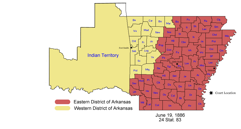 Arkansas districts - 1886